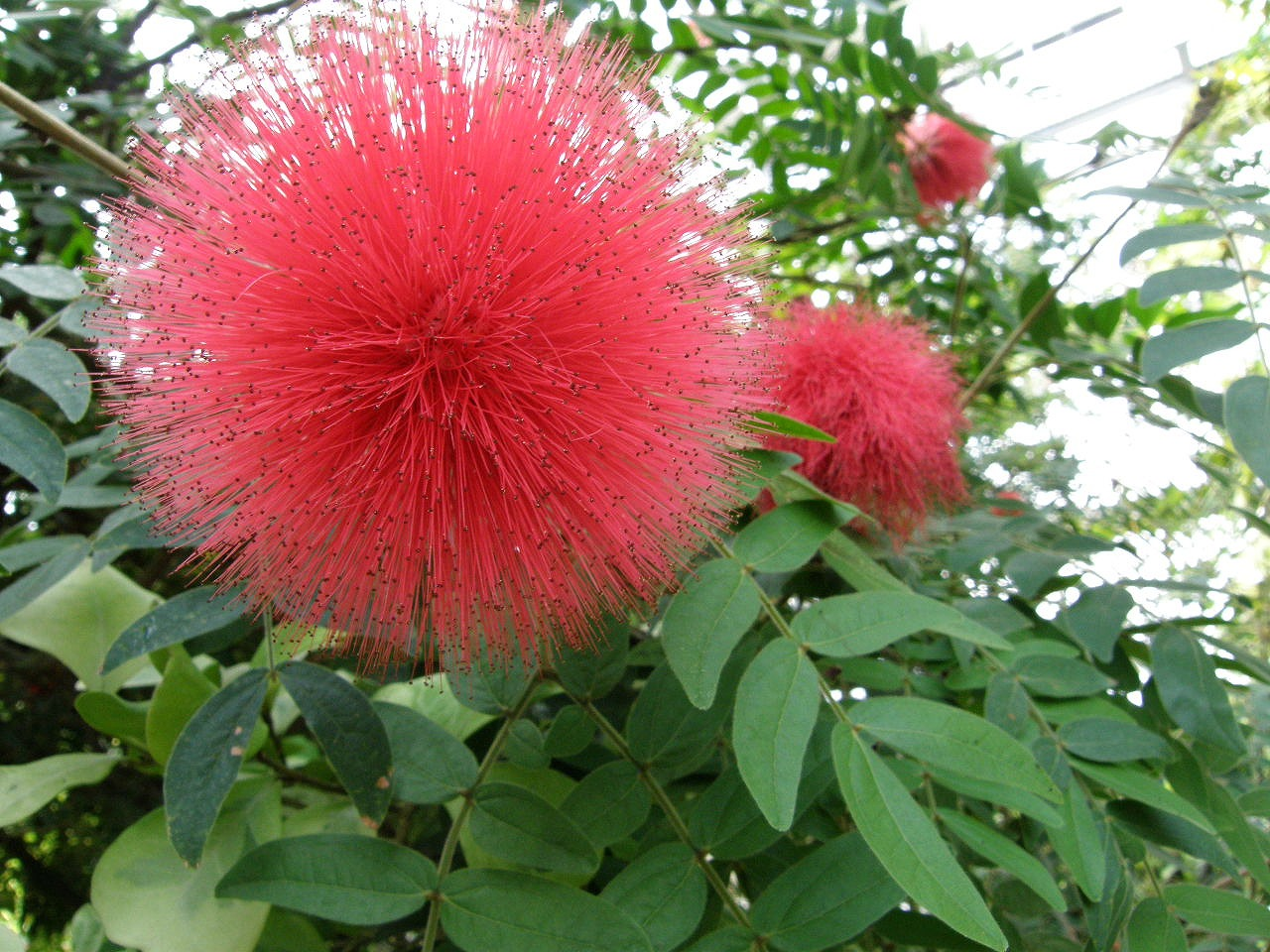 Calliandra haematocephala－オオベニゴウカン、大紅合歓、カリアンドラ